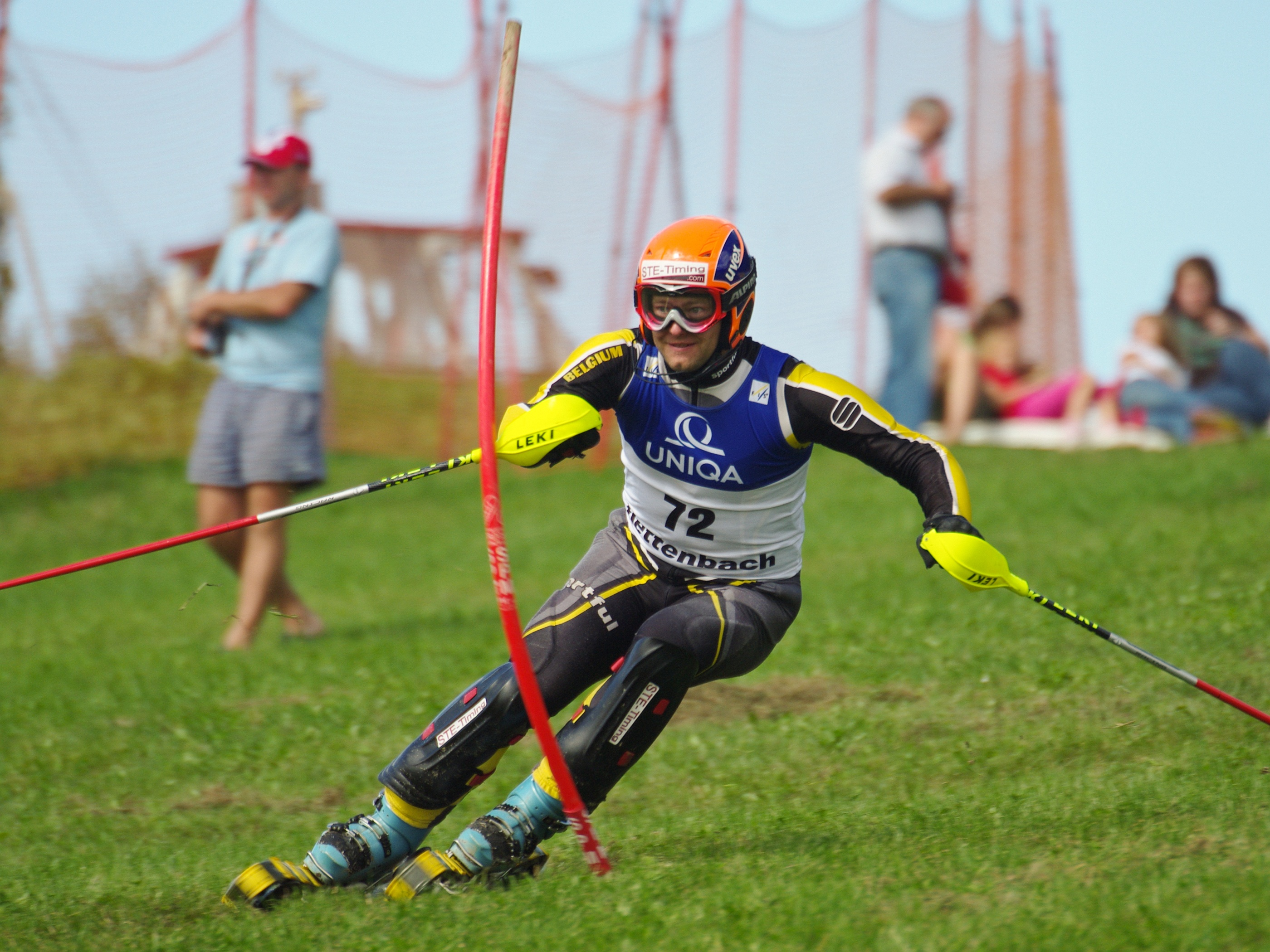 Belgian grass skier Marc Lemaire in the second Slalom run at the 2009 Grass Skiing World Championships in Rettenbach, Austria.